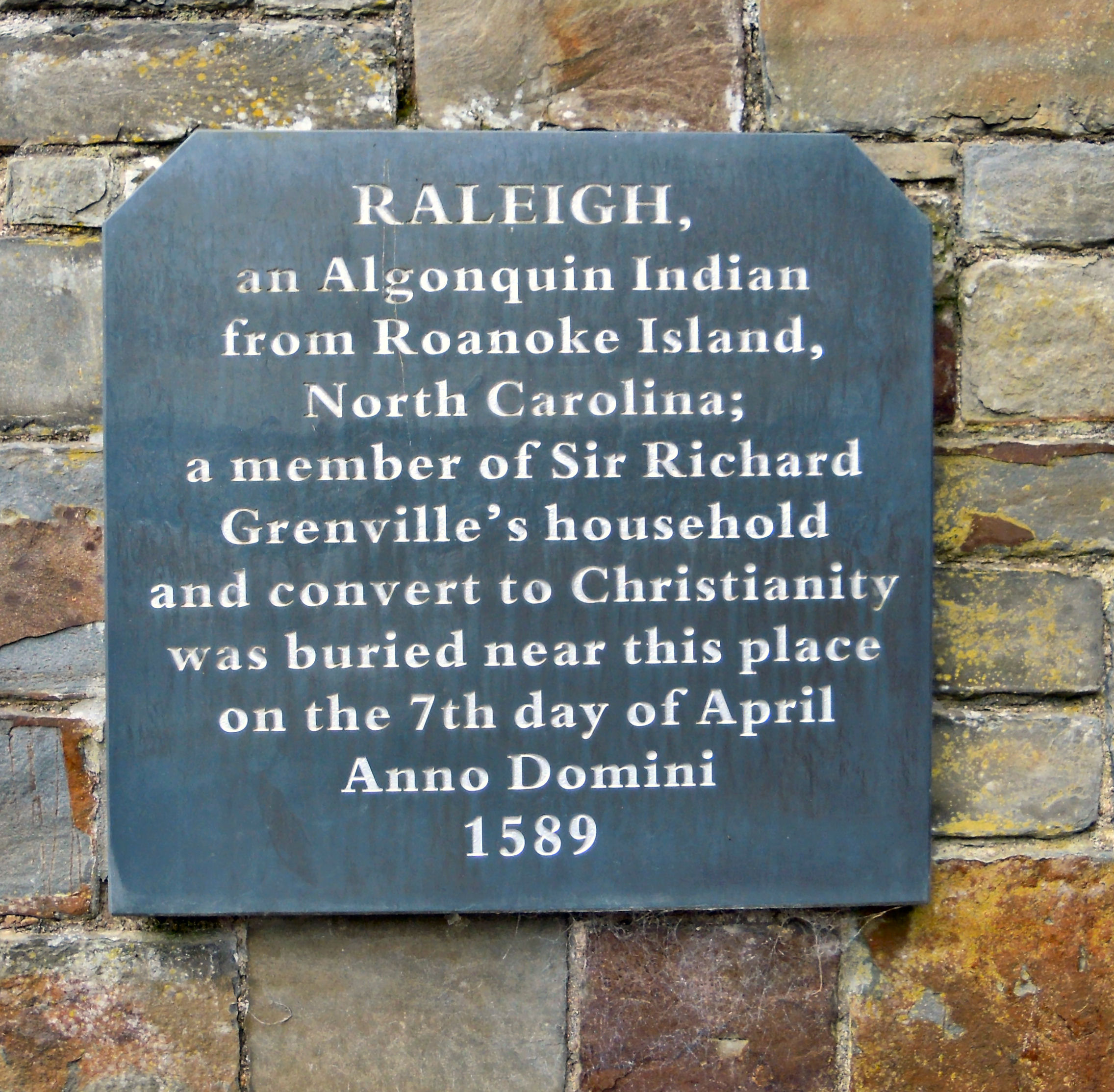 Commemorative plaque to Raleigh outside St Mary's church in Bideford in Devon